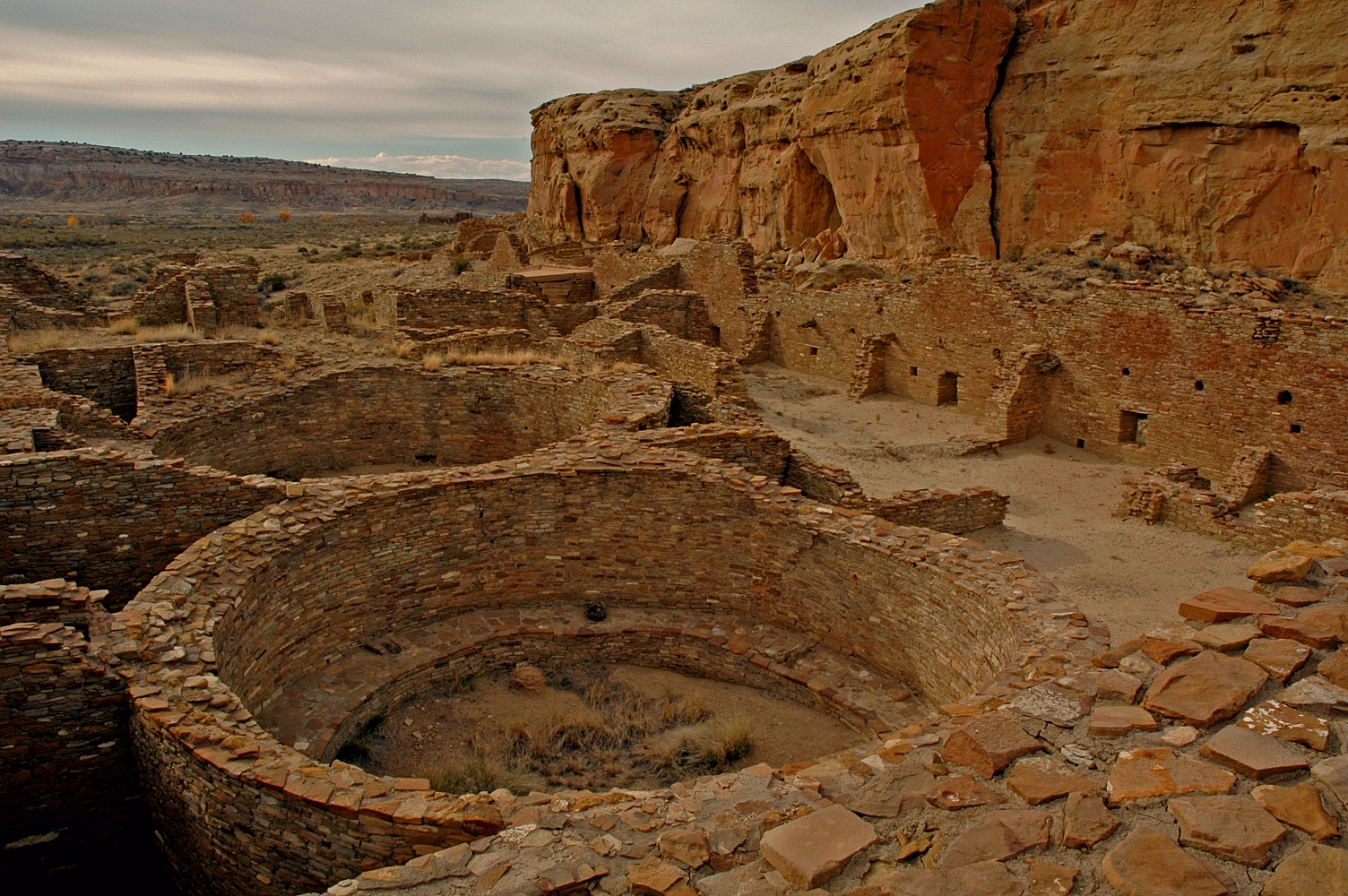 Chaco Culture National Historical Park